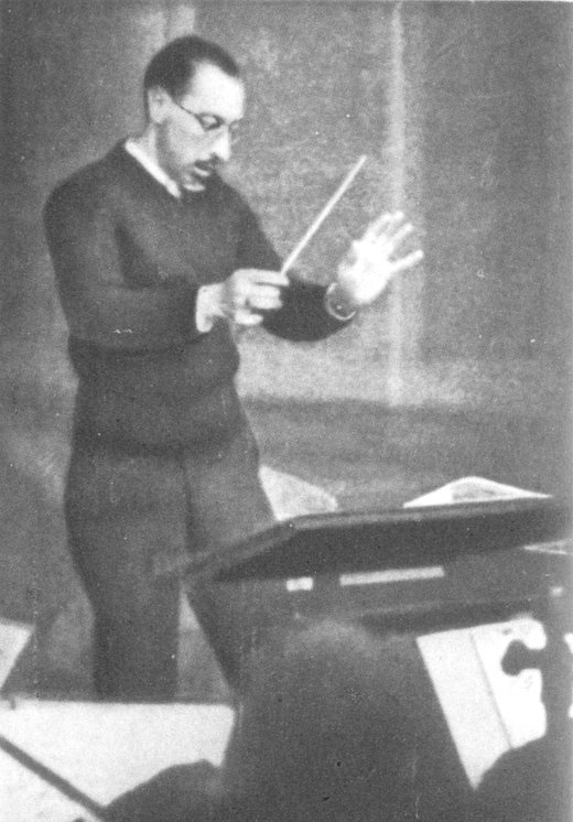 Stravinsky_Igor,_Germany